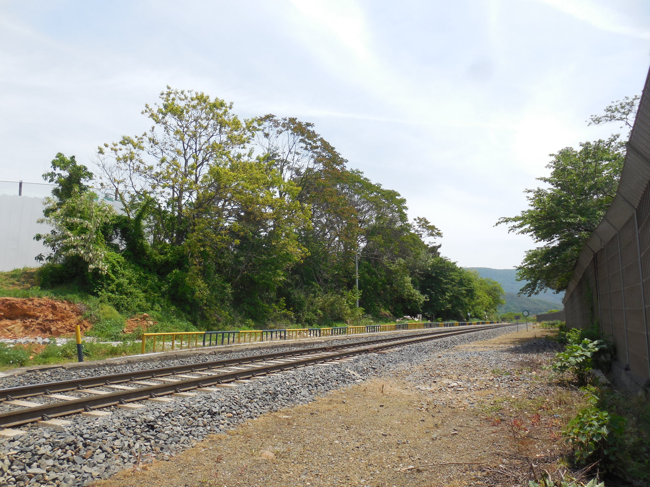 Korail Janghang Line Jusan Station.